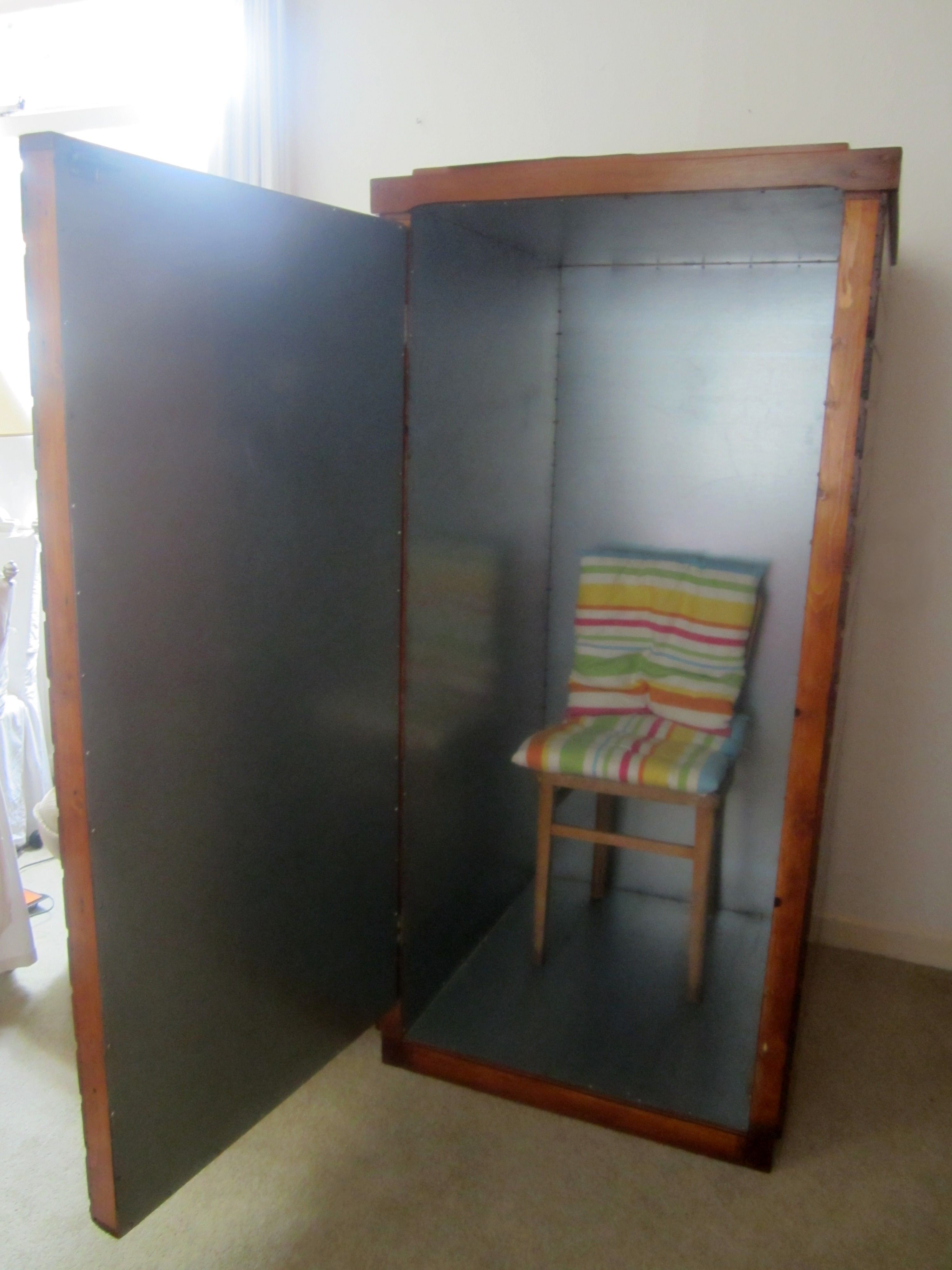 Human-sized orgone energy accumulator (ORAC) with door open. Design follows Wilhelm Reich's guidelines.